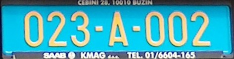 Croatian license plate for diplomatic corps, A = Diplomatic corps